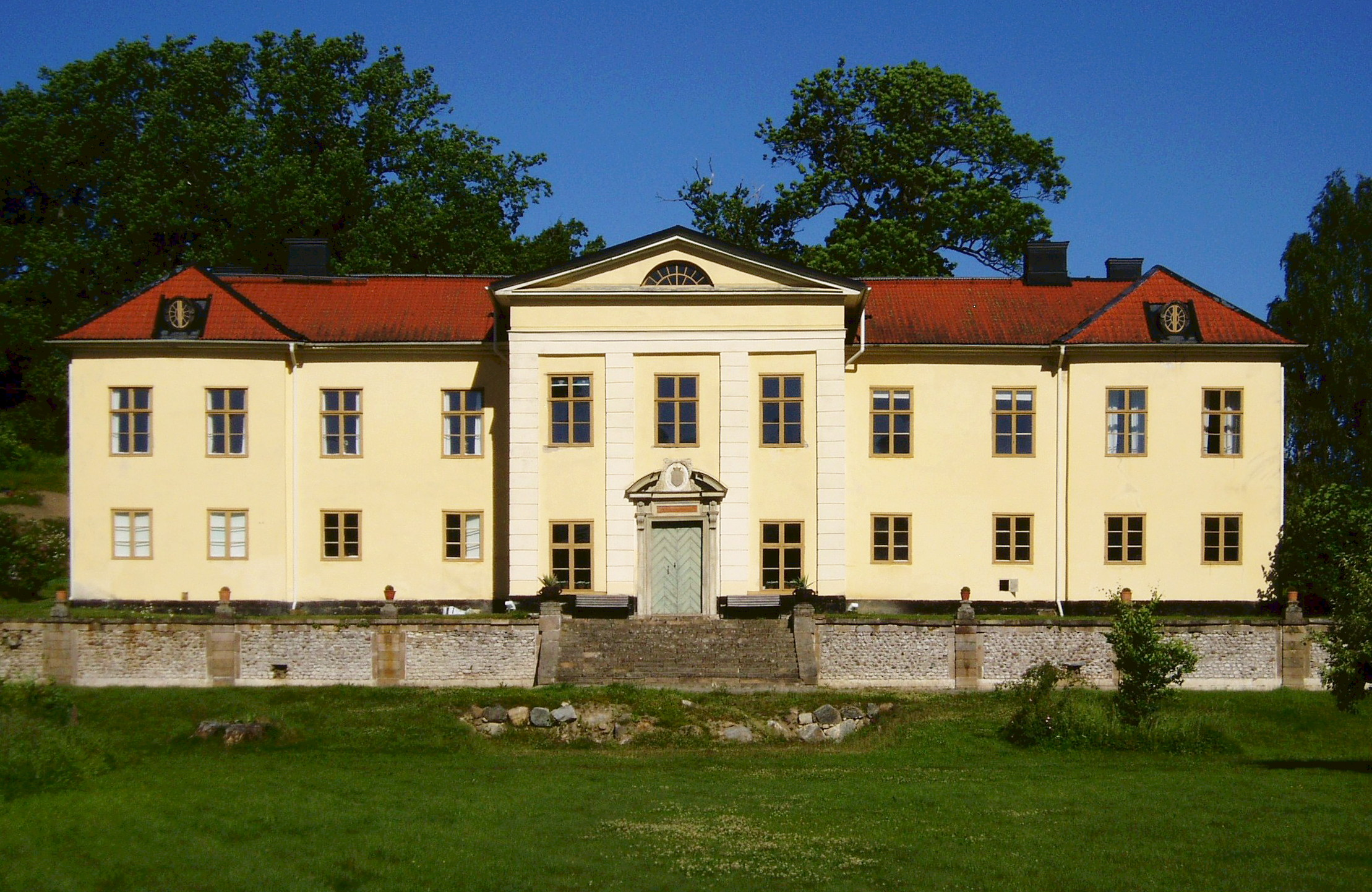 Stavsund mansion, Ekerö municipality, Sweden